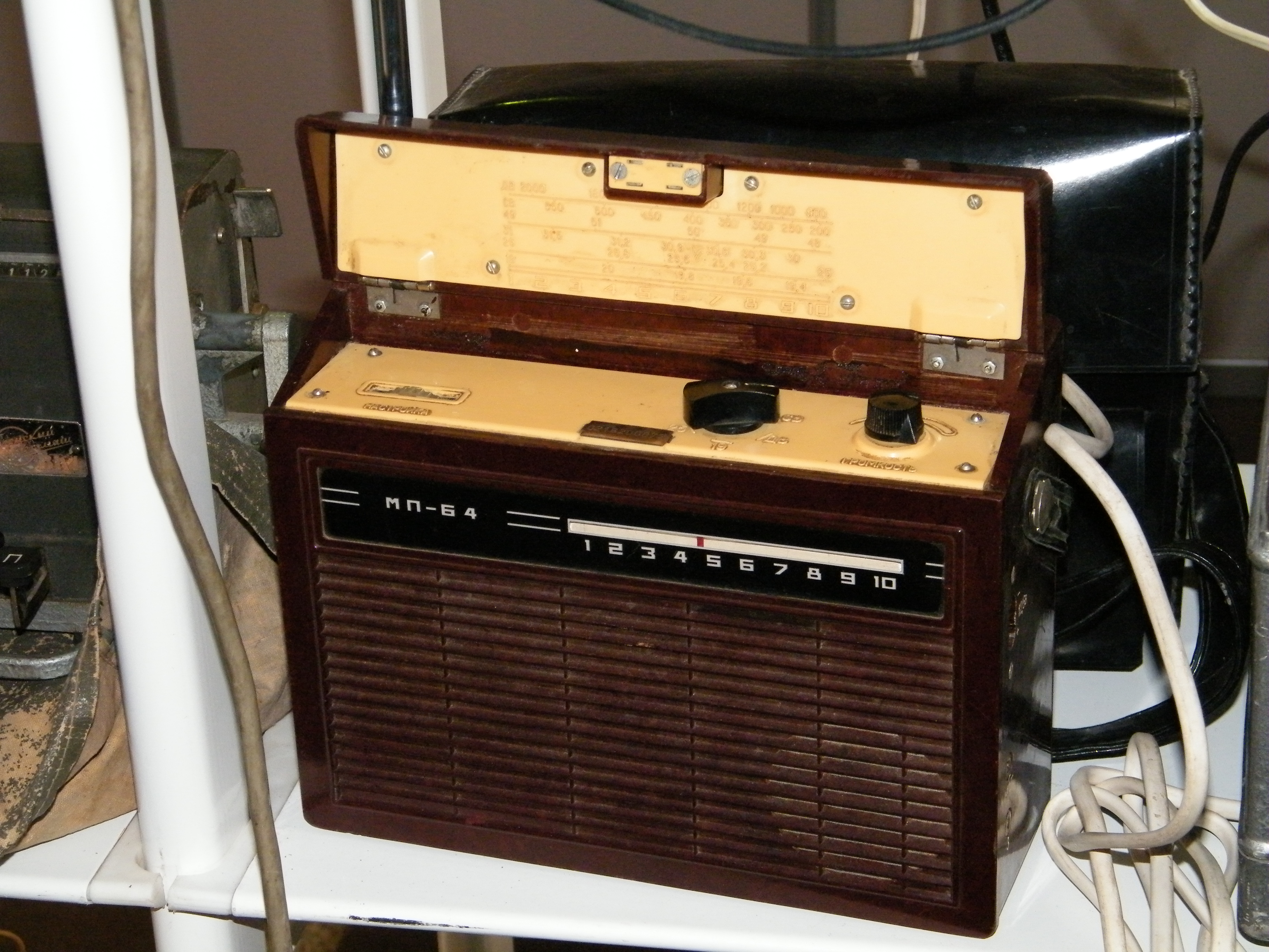 MP-64 Sinichka portable receiver for Soviet Army political officers, 1967